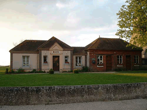 Marchezais, the library and the town hall